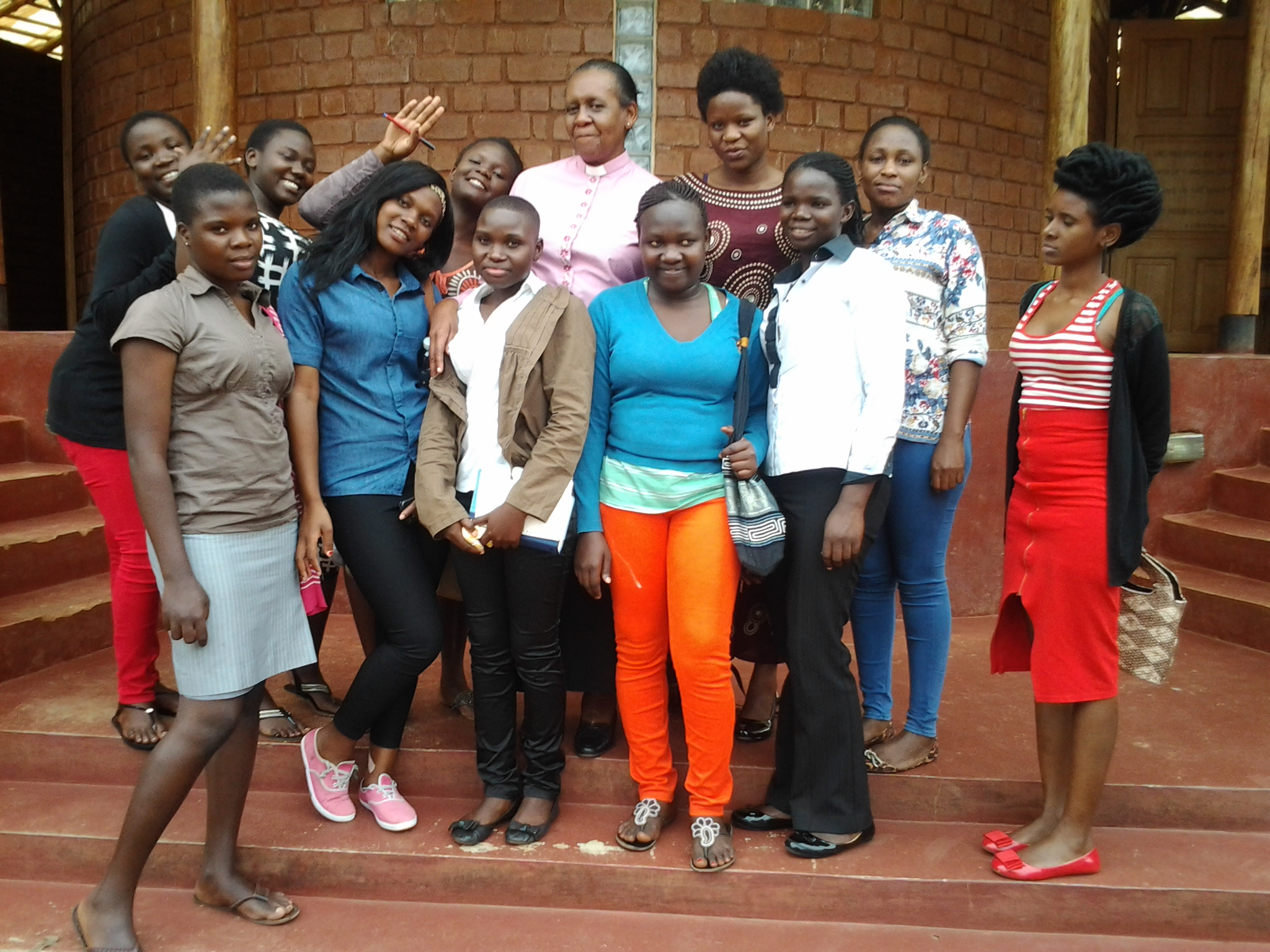 Girls pose with Rev. Diana Nkesiga (top centre, the woman in pink) at the Phumla Retreat Centre in Kampala, Uganda in December 2015, half a year after her husband Solomon Nkesiga died (March 23, 2015). See: Nkesiga lost her husband to cancer.